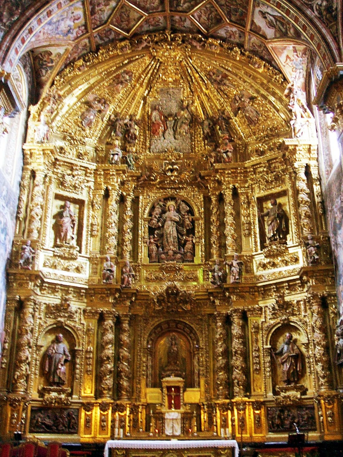 Retablo mayor barroco de la Iglesia parroquial de Nuestra Señora de la Asunción, Labastida, Álava, Euskadi, España.